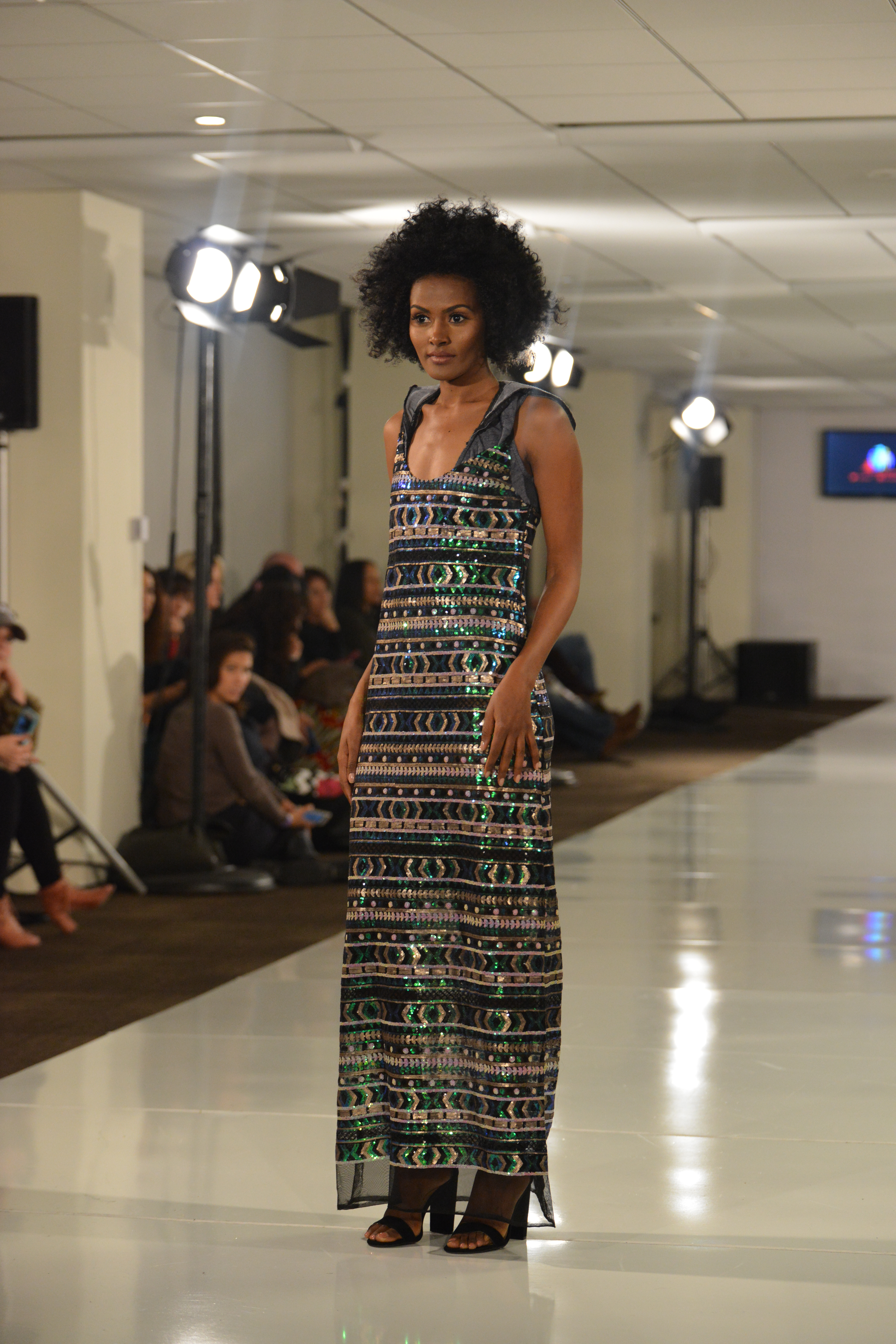 Crystal Couture Fashion Show & Sale